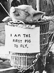 A crop of File:First_pig_to_fly,_1909._01.jpg